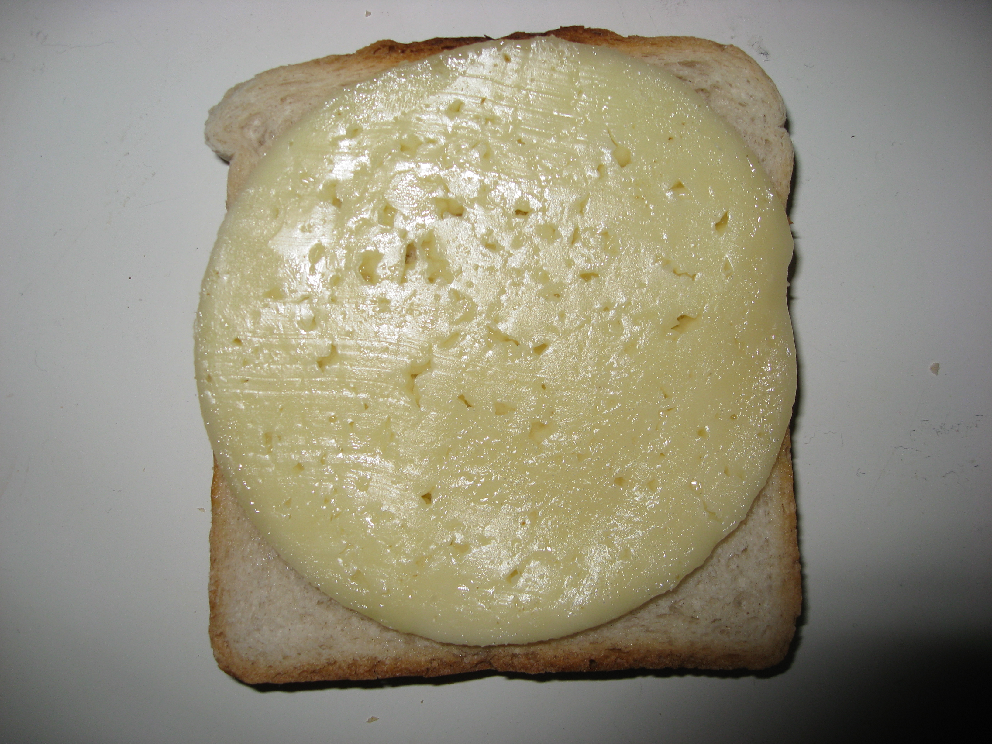 A slice of Danish cream havarti on white bread